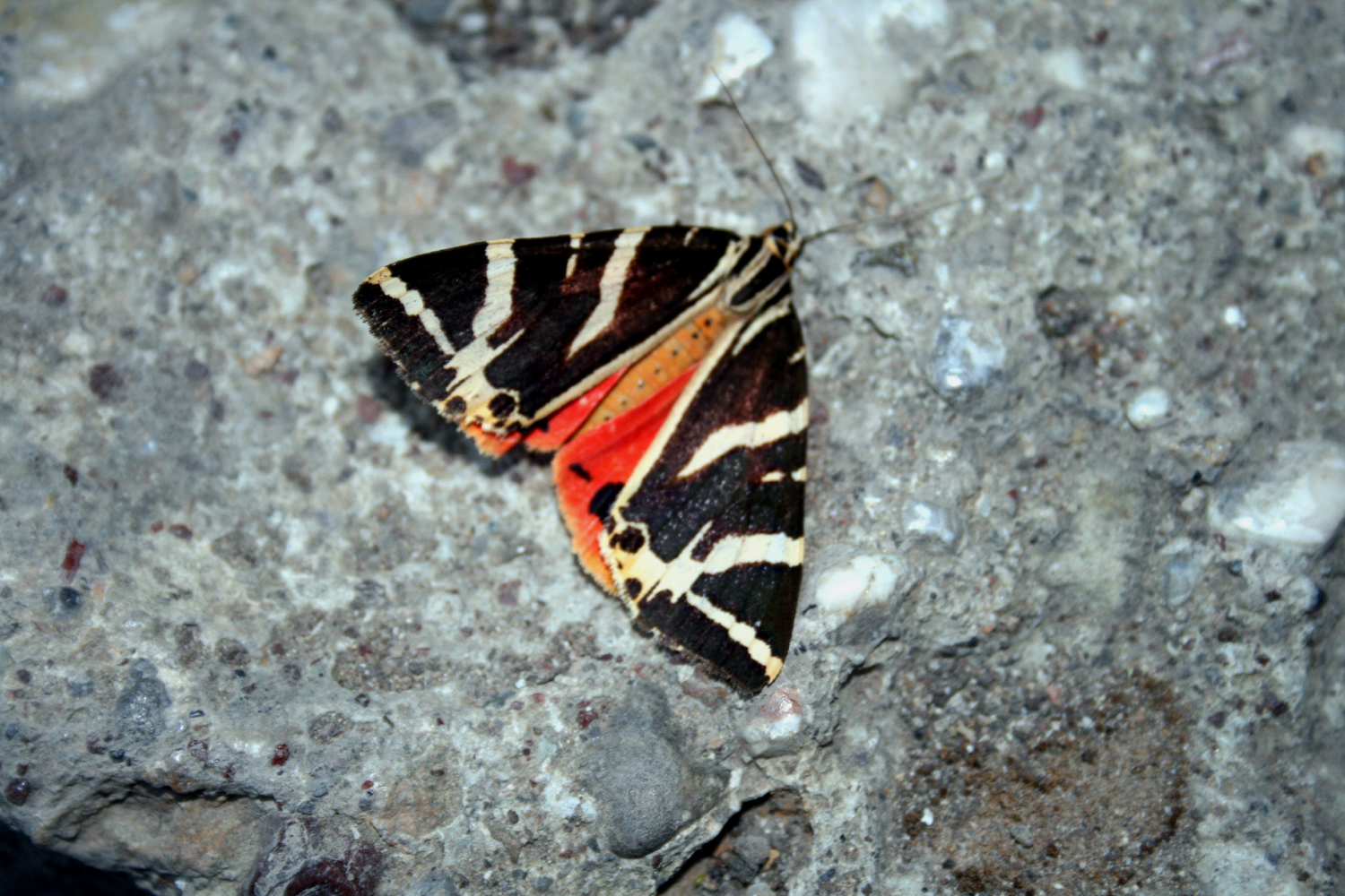 Butterfly Euplagia quadripunctaria, Rhodes island, Petaloudes, Valley of Butteflies Motýl přástevník kostivalový, ostrov Rhodos, Údolí motýlů, Petaloudes Date=August 2007 Author= Karelj